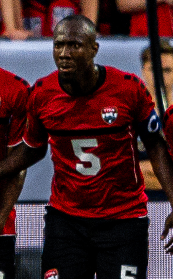 USMNT vs. Trinidad and Tobago